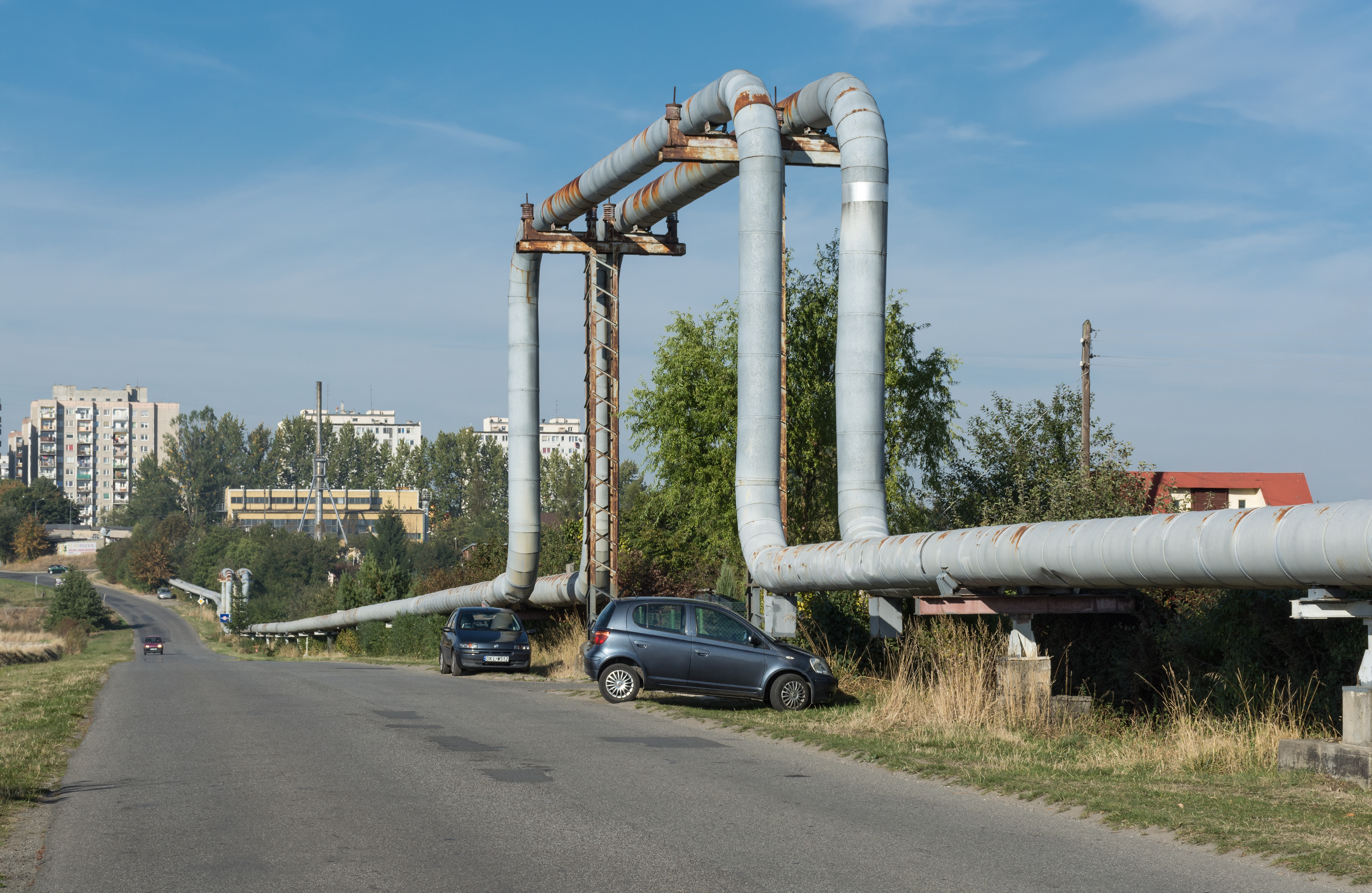 Heating pipeline at Objazdowa Street in Kłodzko